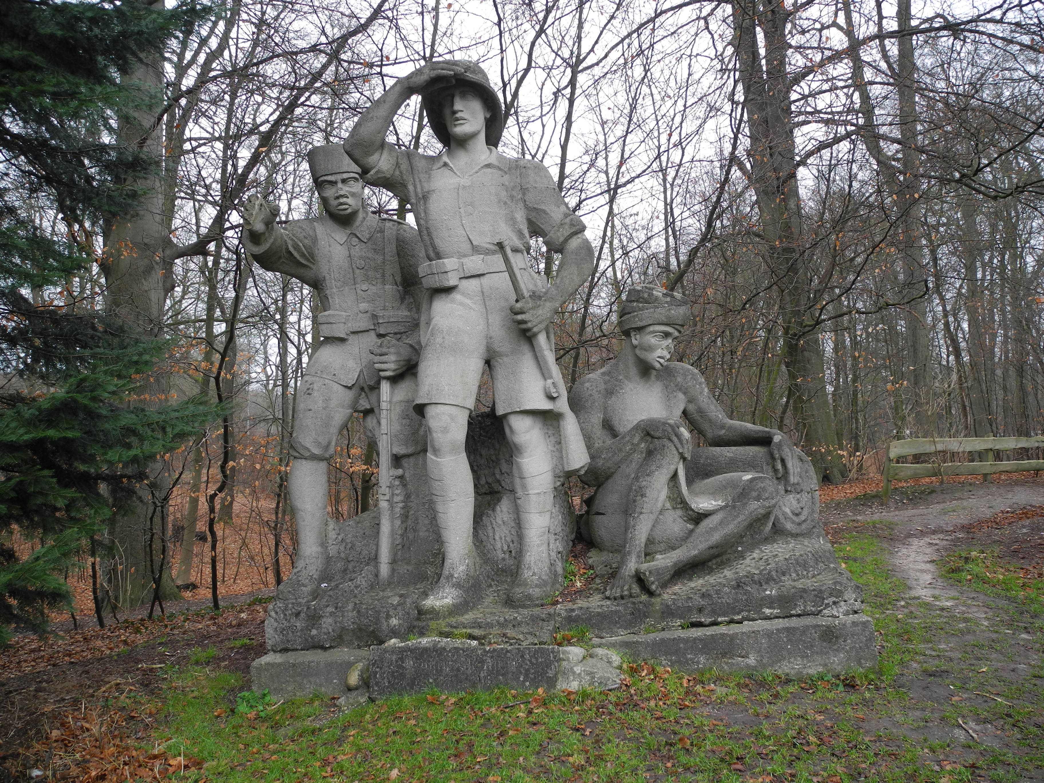 German-East-African-Memorial in Aumühle (Schleswig-Holstein in Germany). Inscription on base reads 'Deutsch-Ost-Afrika 1914-1918'.